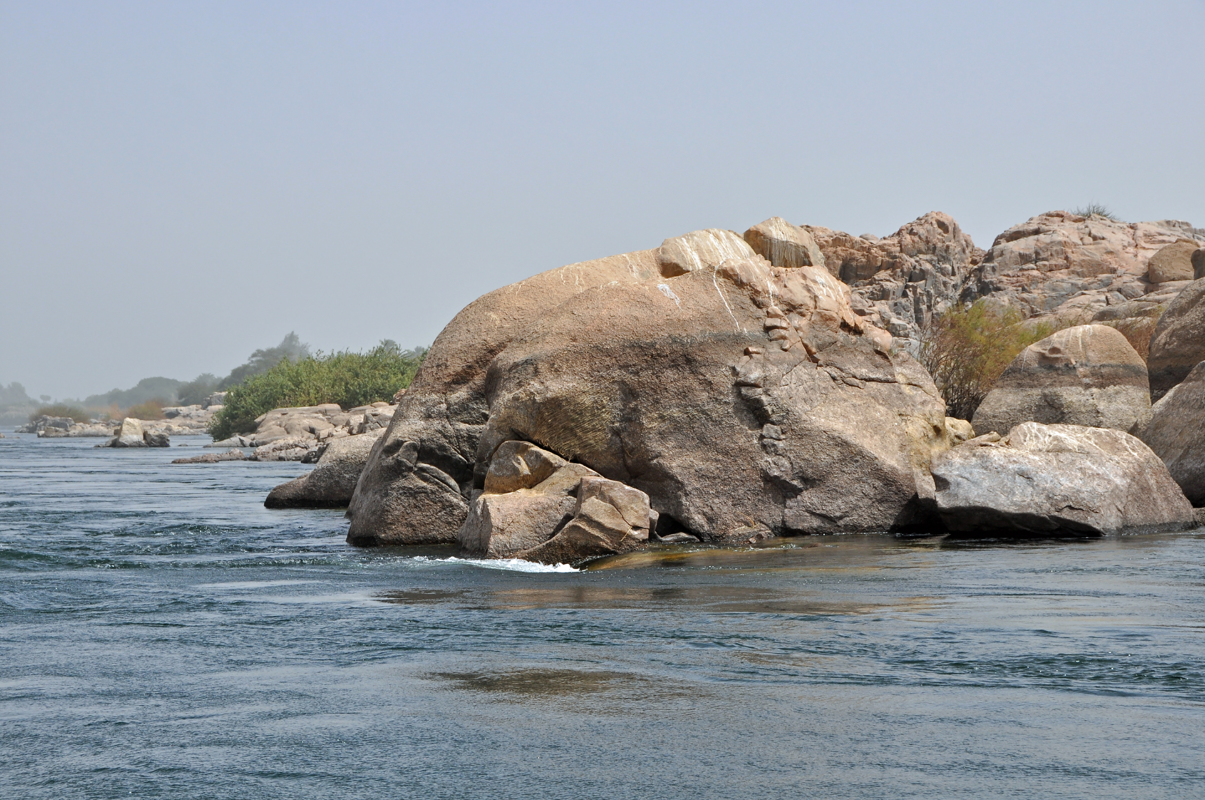 The First Cataract of the Nile, south of the town of Aswan (Egypt)